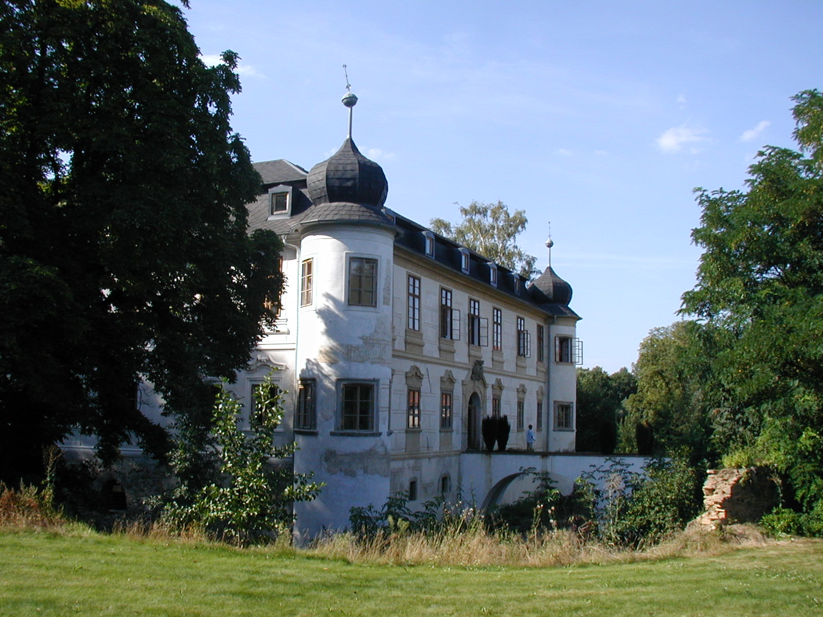 Třebešice (château_KH) A. View from South-East (Left Wing and Front), Kutná Hora District, the Czech Republic.